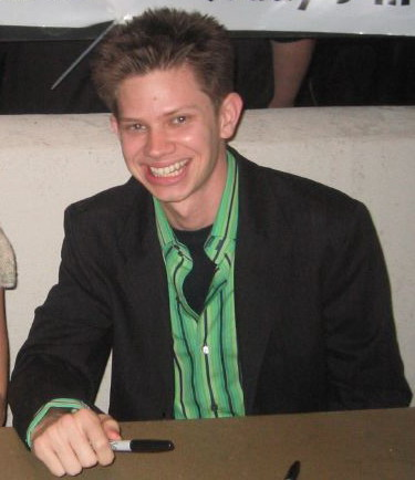 actor Lee Norris at a One Tree Hill fan meet'n'greet